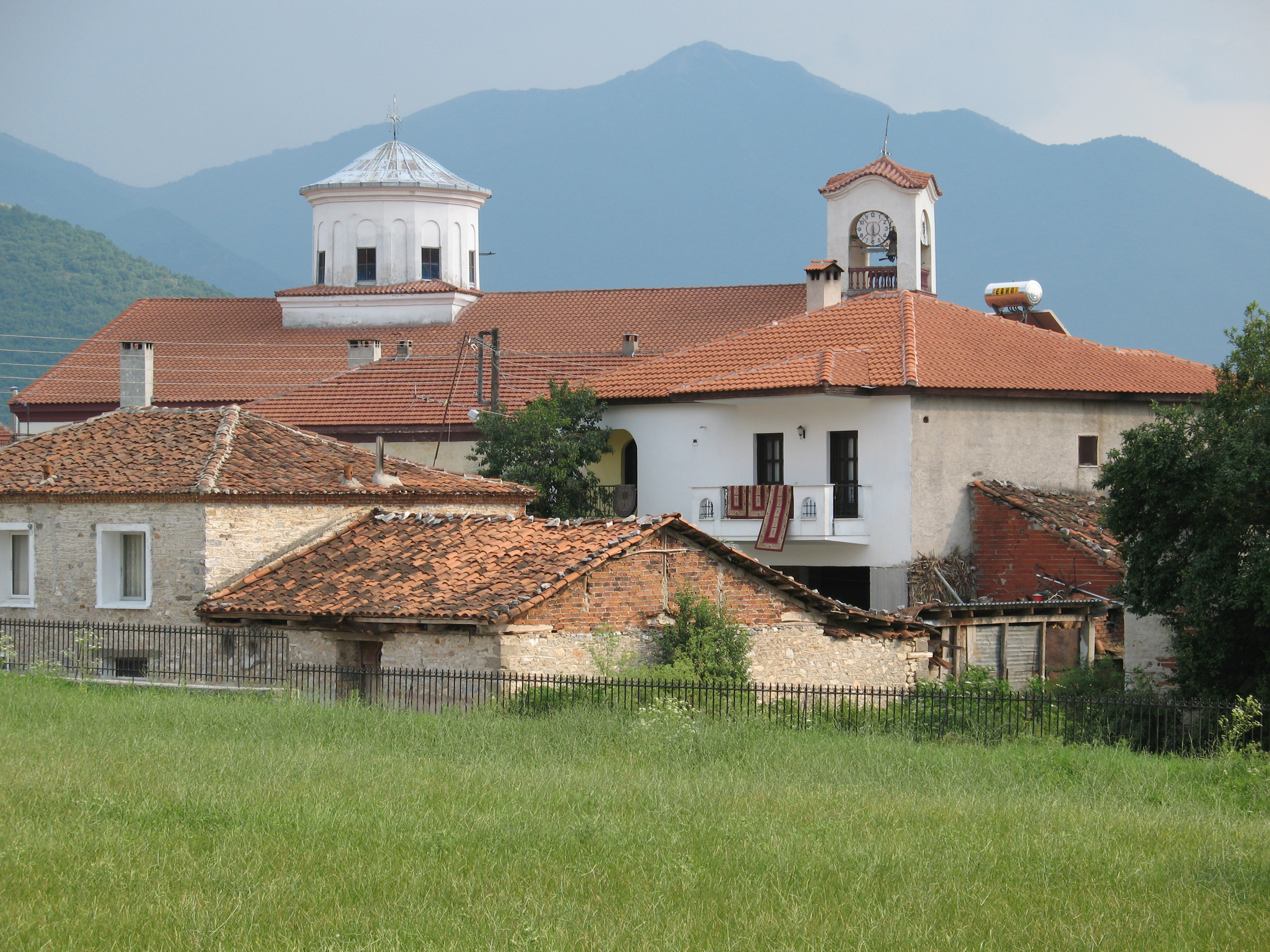 The church in Zarnevo.